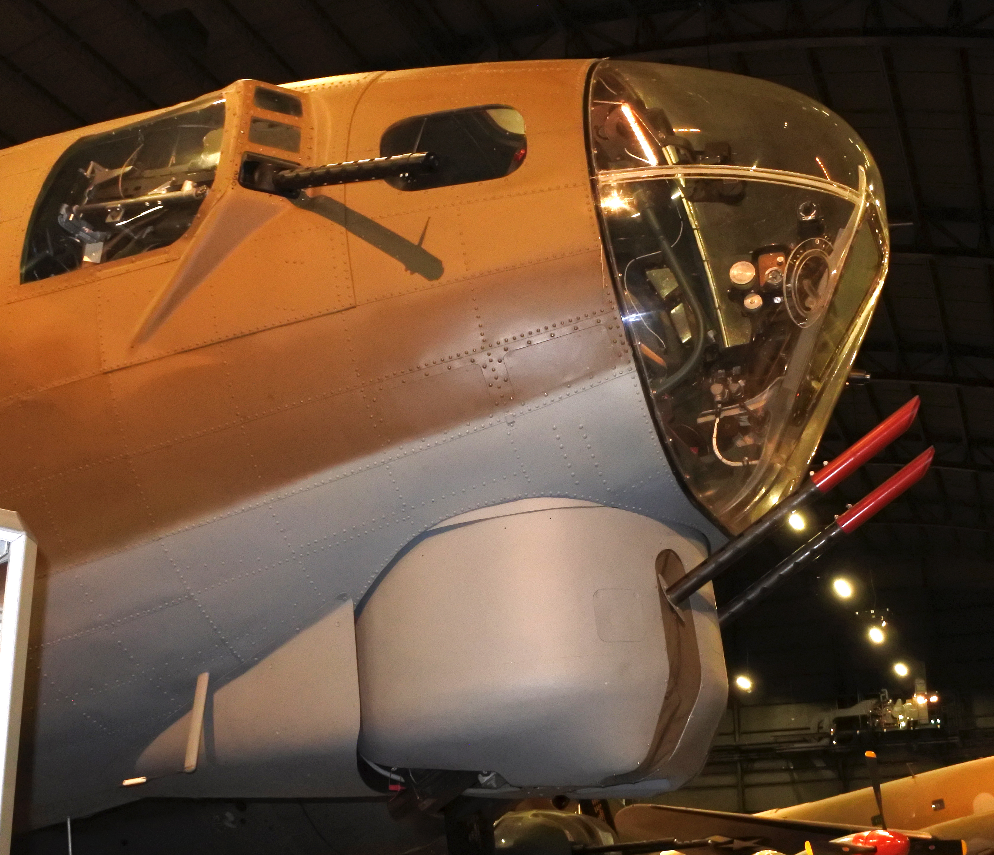 B-17G nose; National Museum of the United States Air Force.